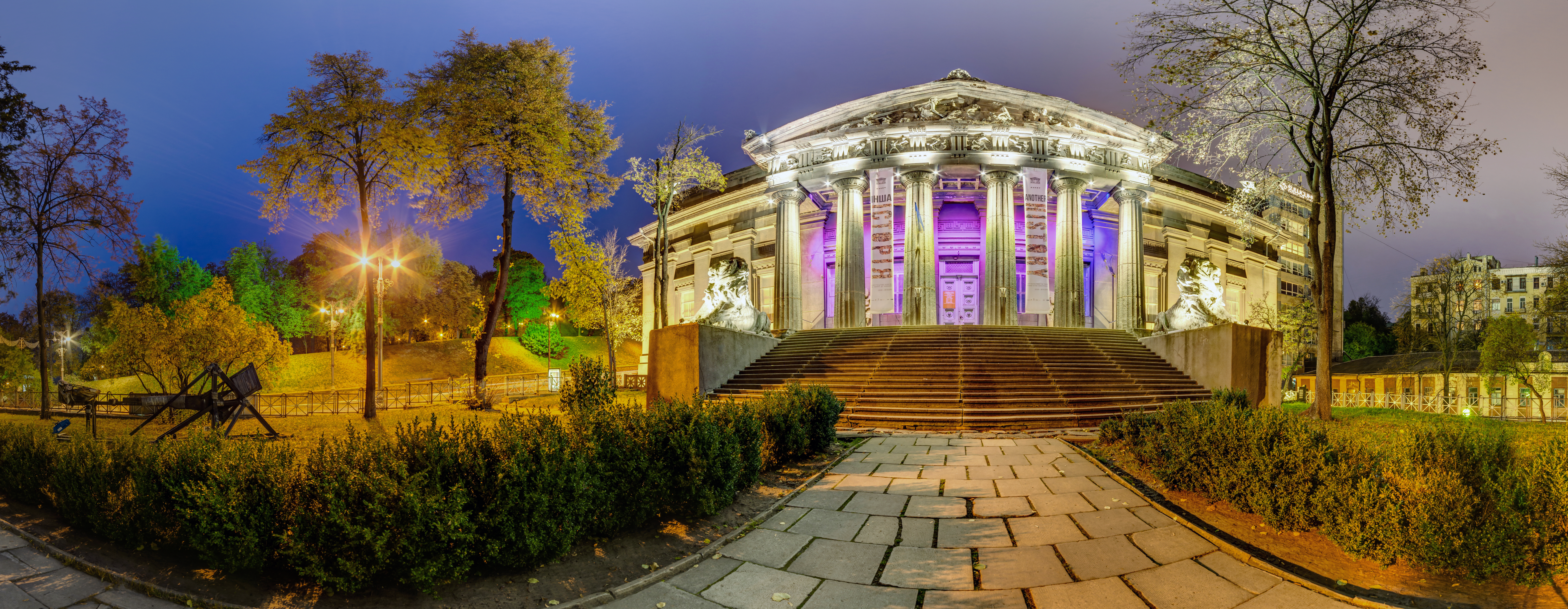 The National Art Museum of Ukraine, Kiev.